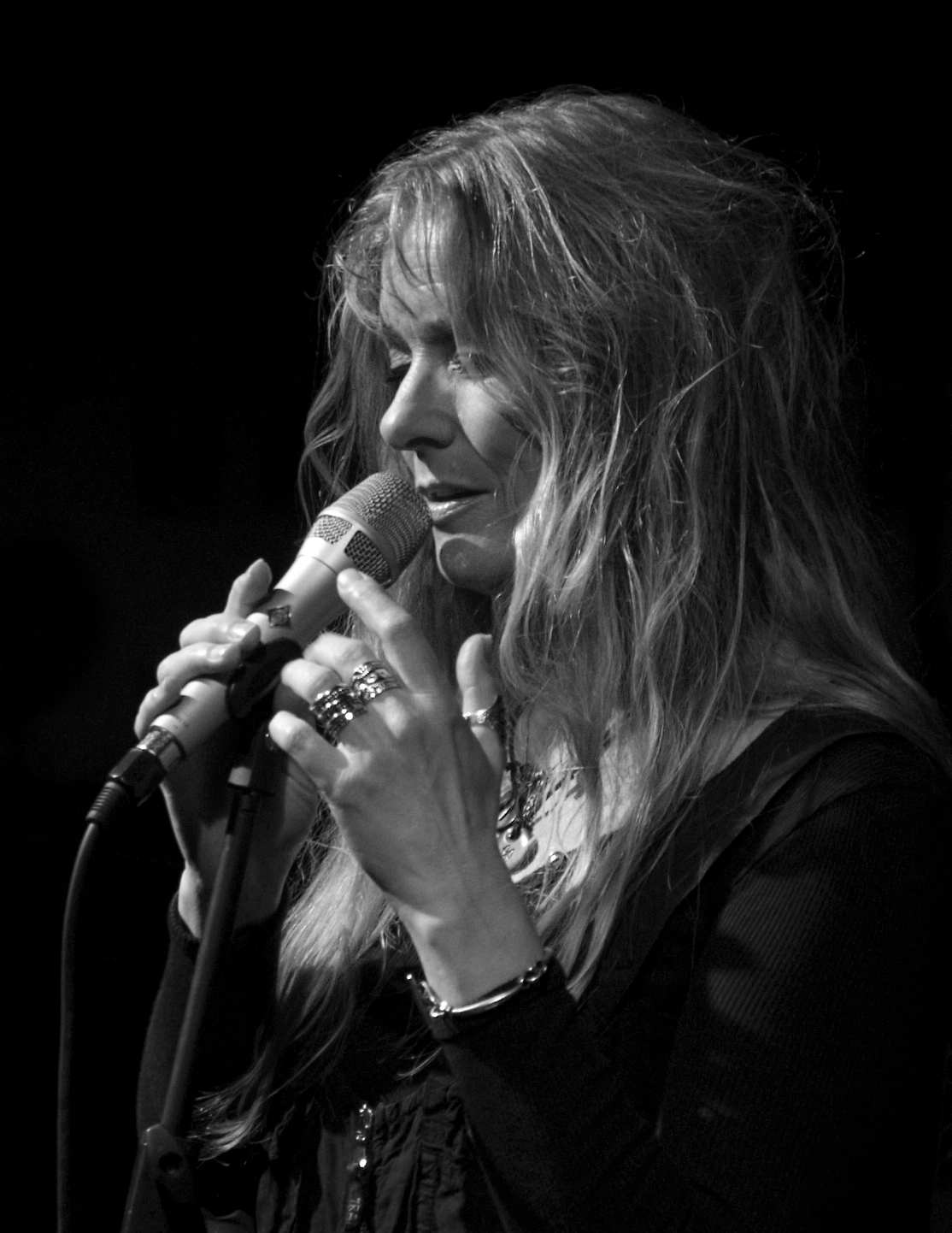 Hilde Hefte. Concert at Agder Theatre 2008